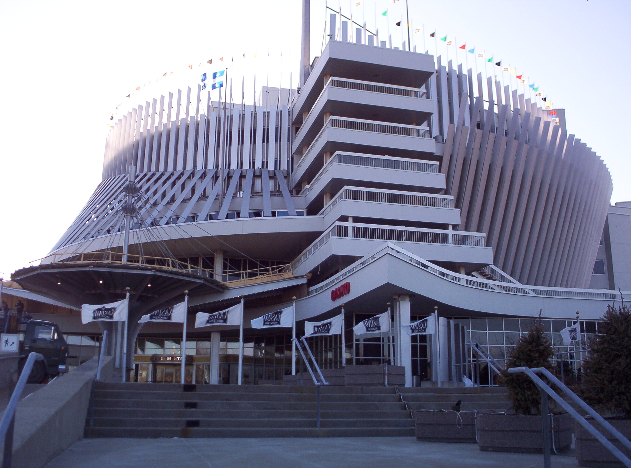 Summary: Montreal Casino, Montréal, Quebec Author: Colocho Date: April 10th, 2006